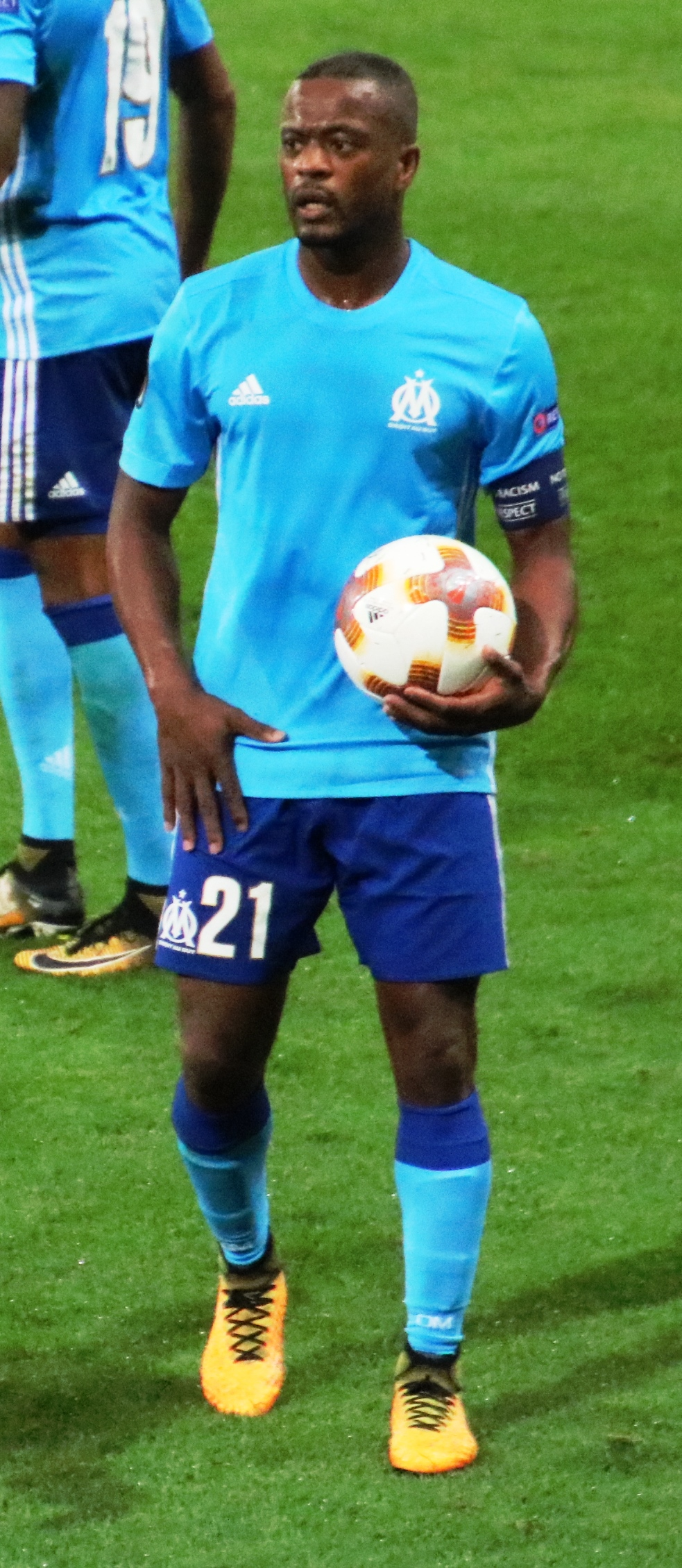 UEFA Euroleague group stage matchday 2